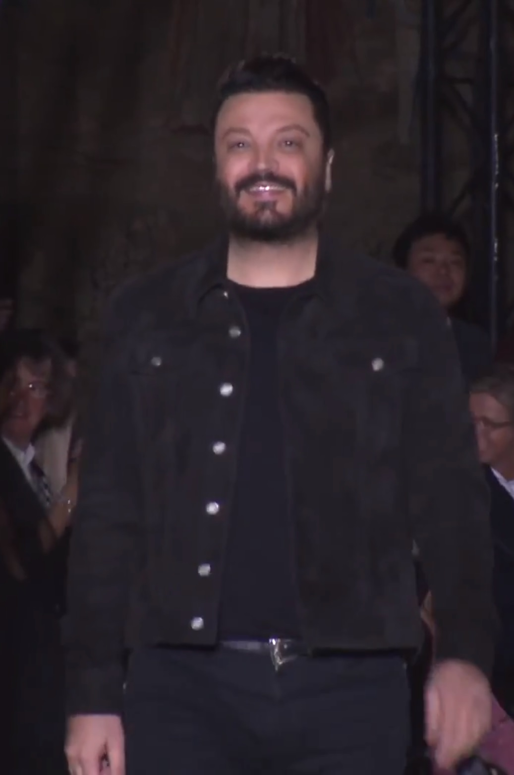 Lebanese fashion designer Zuhair Murad at his Spring Summer 2018 Haute Couture show in Paris